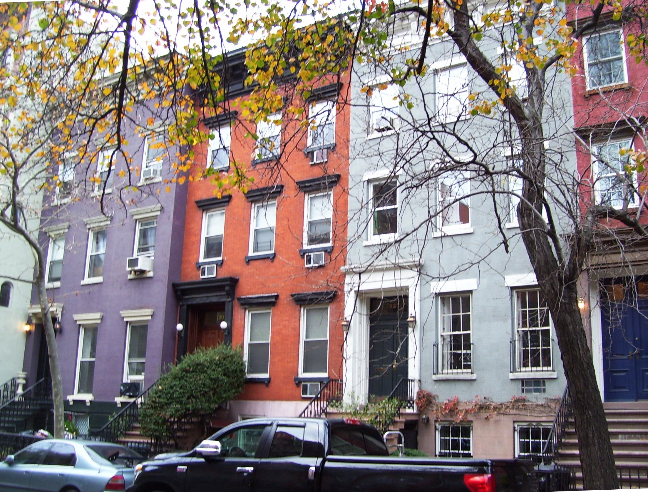 From right to left, 327-331 West 19th Street, between Eighth and Ninth Avenues, in the Chelsea neighborhood of Manhattan.